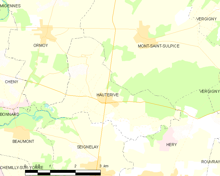 Map of French municipality Hauterive